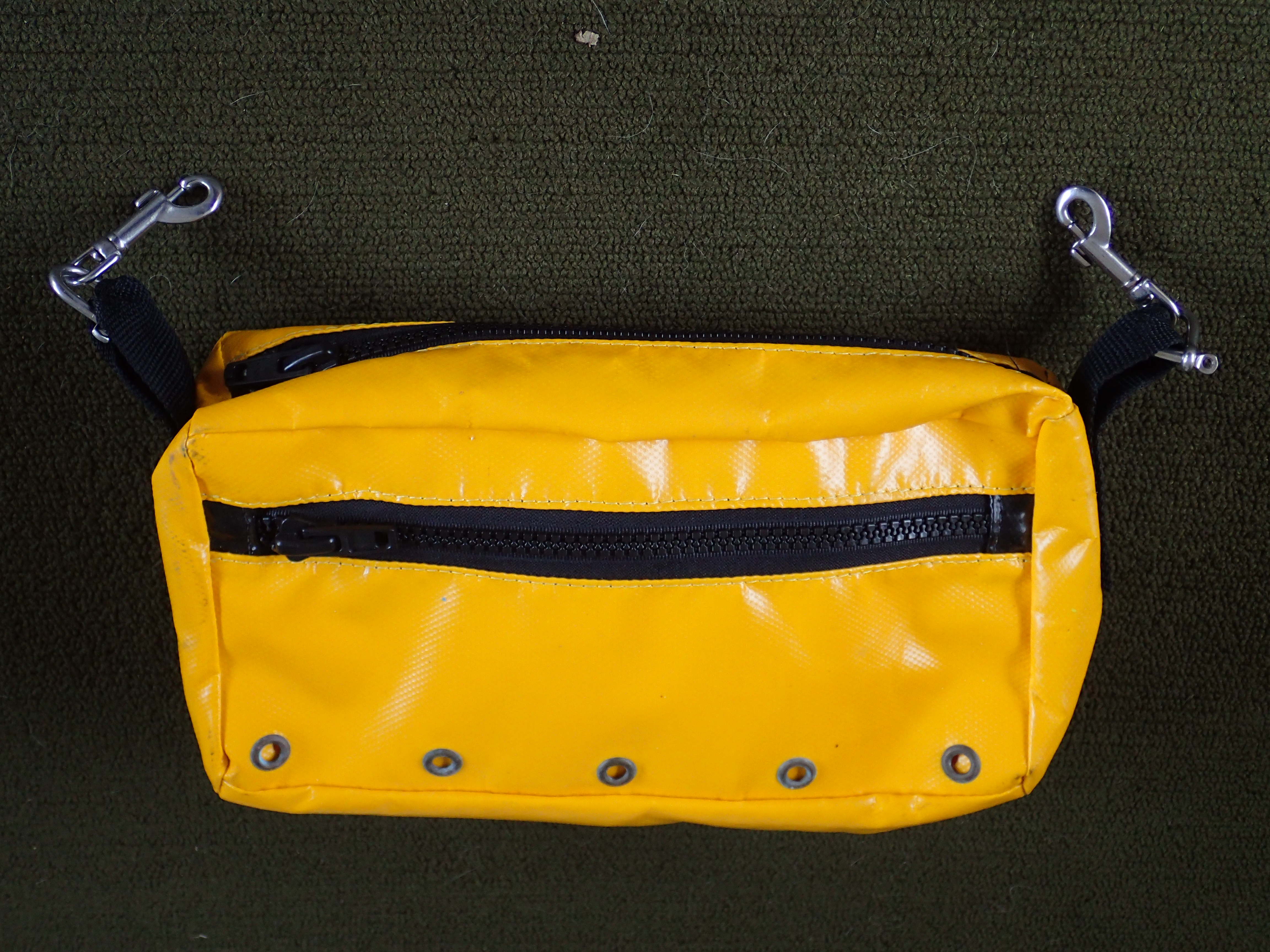 Polytarp toolbag with bolt snaps for securing to harness